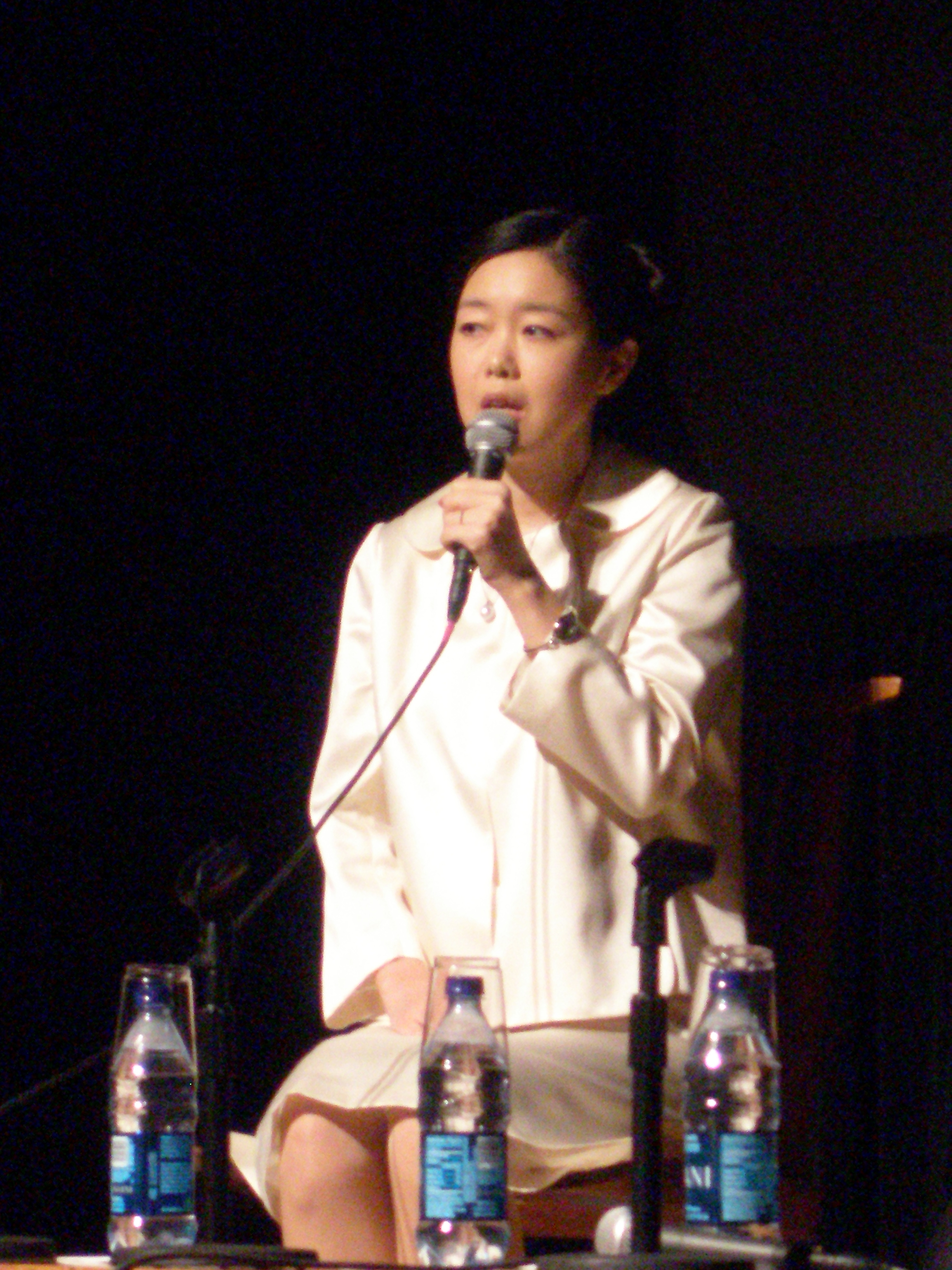 Japan Society Panel on Art & Nature - 03/23/2010